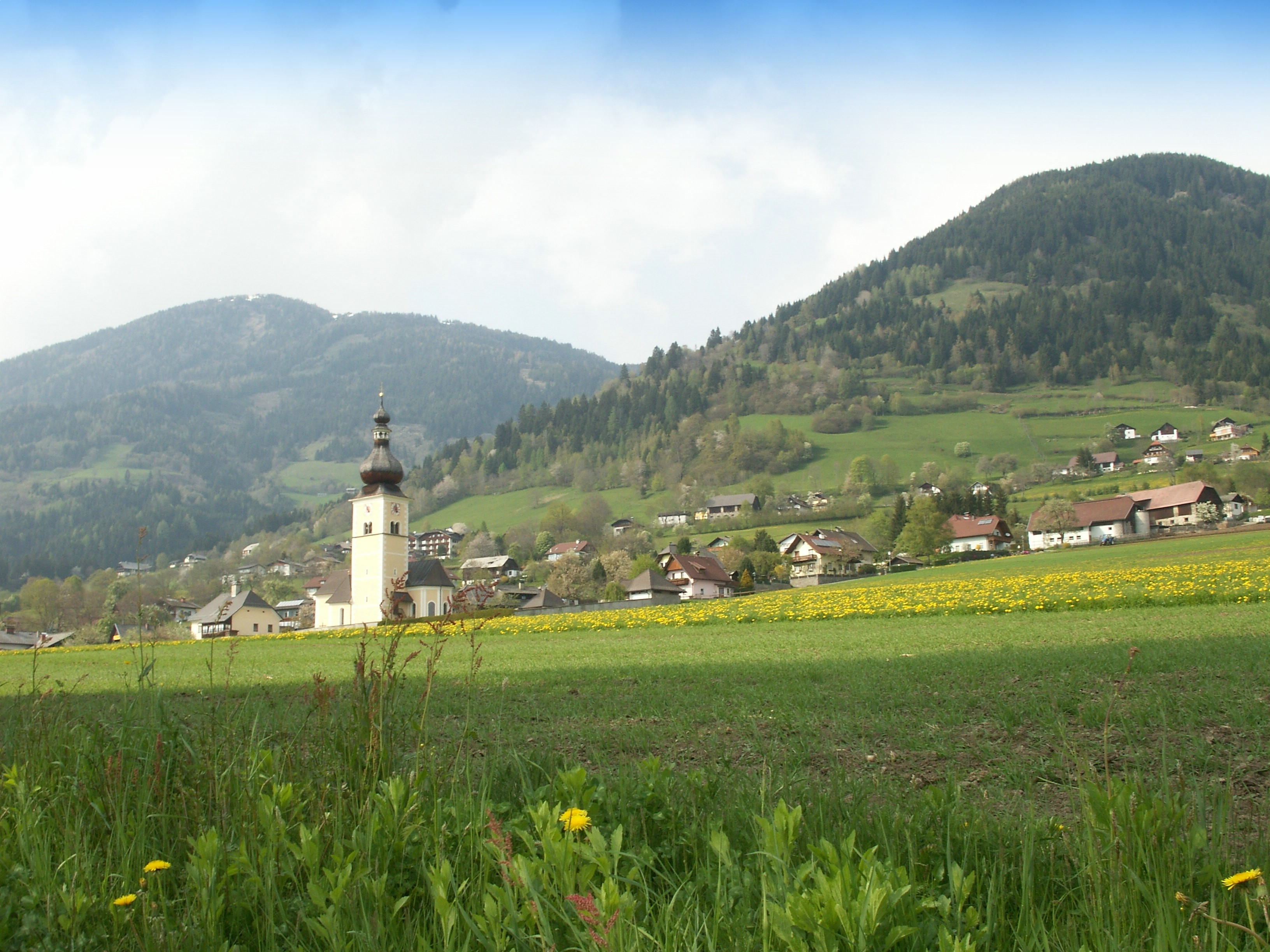 Obermillstatt near Lake Millstatt (Millstätter See), district Spittal an der Drau in Carinthia / Austria / EU. View in 2006 to the northwest from the sports field Obermillstatt. In the background of the Millstätter Alpe belonging Tschierwegernock (2,010 m), right behind the church, the rising Lärchriegel. On the expansion of pastures can be seen that the farmers can grow the meadows ever onward (similar perspective around 1950). Reverse shot that inclusion perspective on Tschierweger Nock.